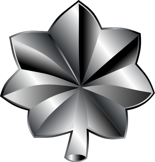 USAF Lieutenant Colonel insignia, public domain image from af.mil